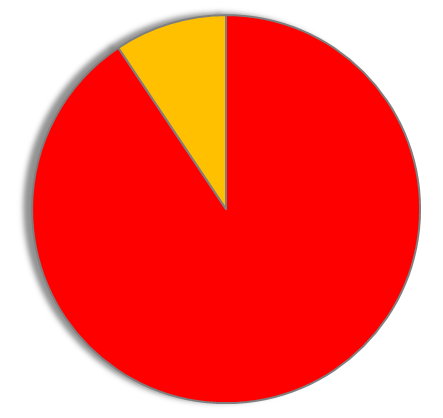 Expressed as a pie chart in the Kumamoto gubernatorial election in 2012, the number of votes for each candidate. explanatory notes ■ - Ikuo Kabashima ■ - Tsuyoshi Hashimoto